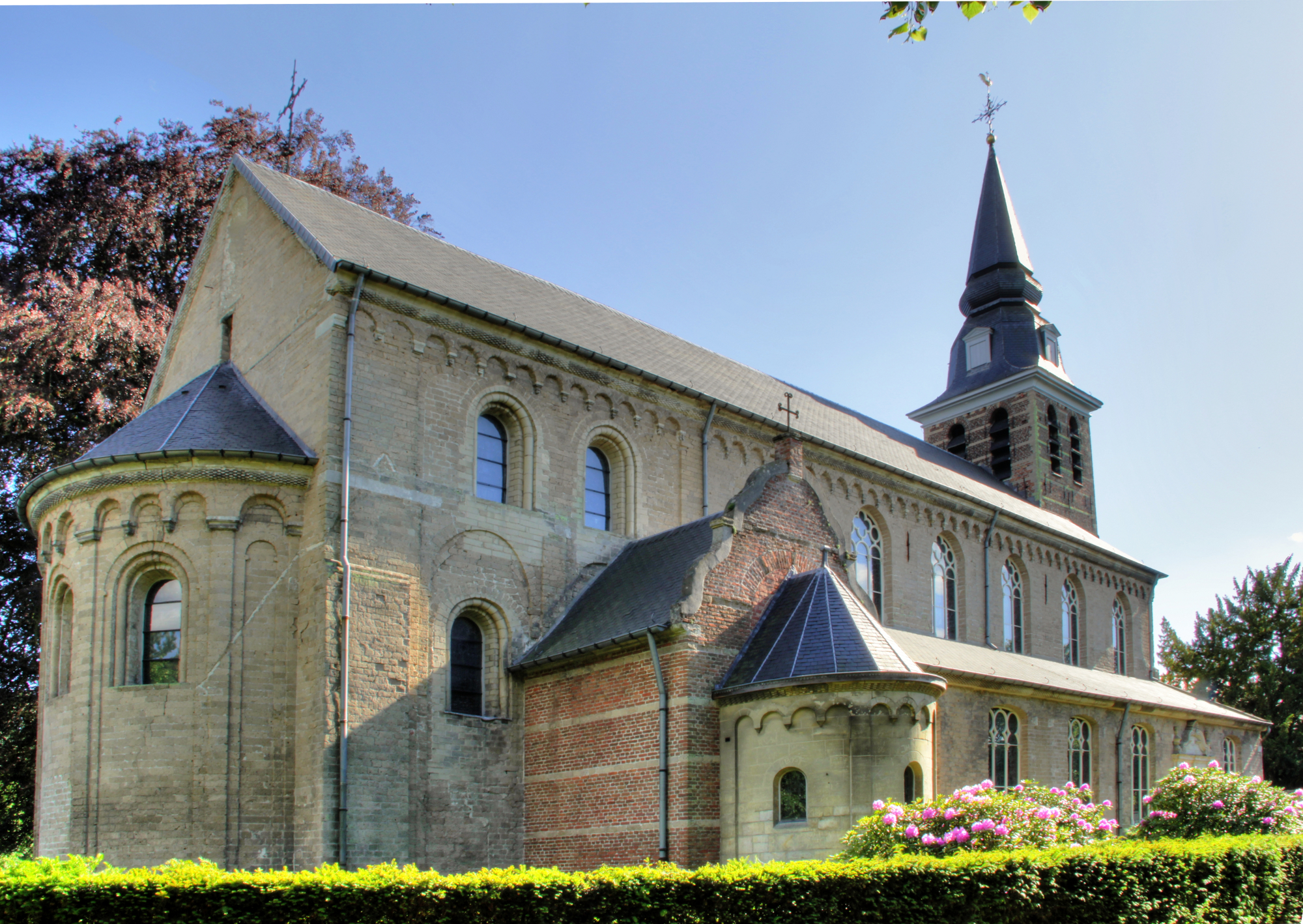 Saint Niklaas Church Postel